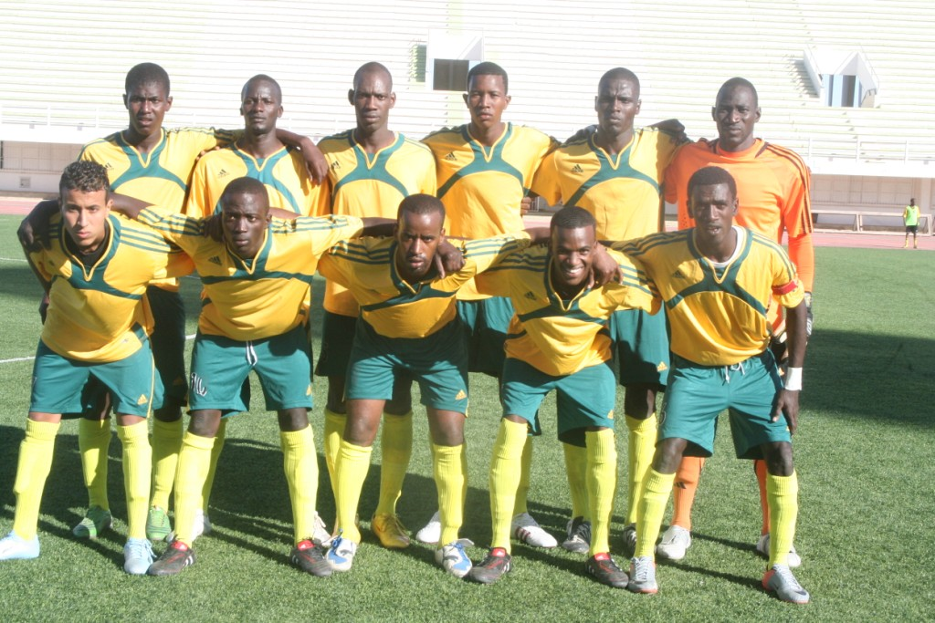 Players of ASC Tevragh-Zeina, from Mauritania.